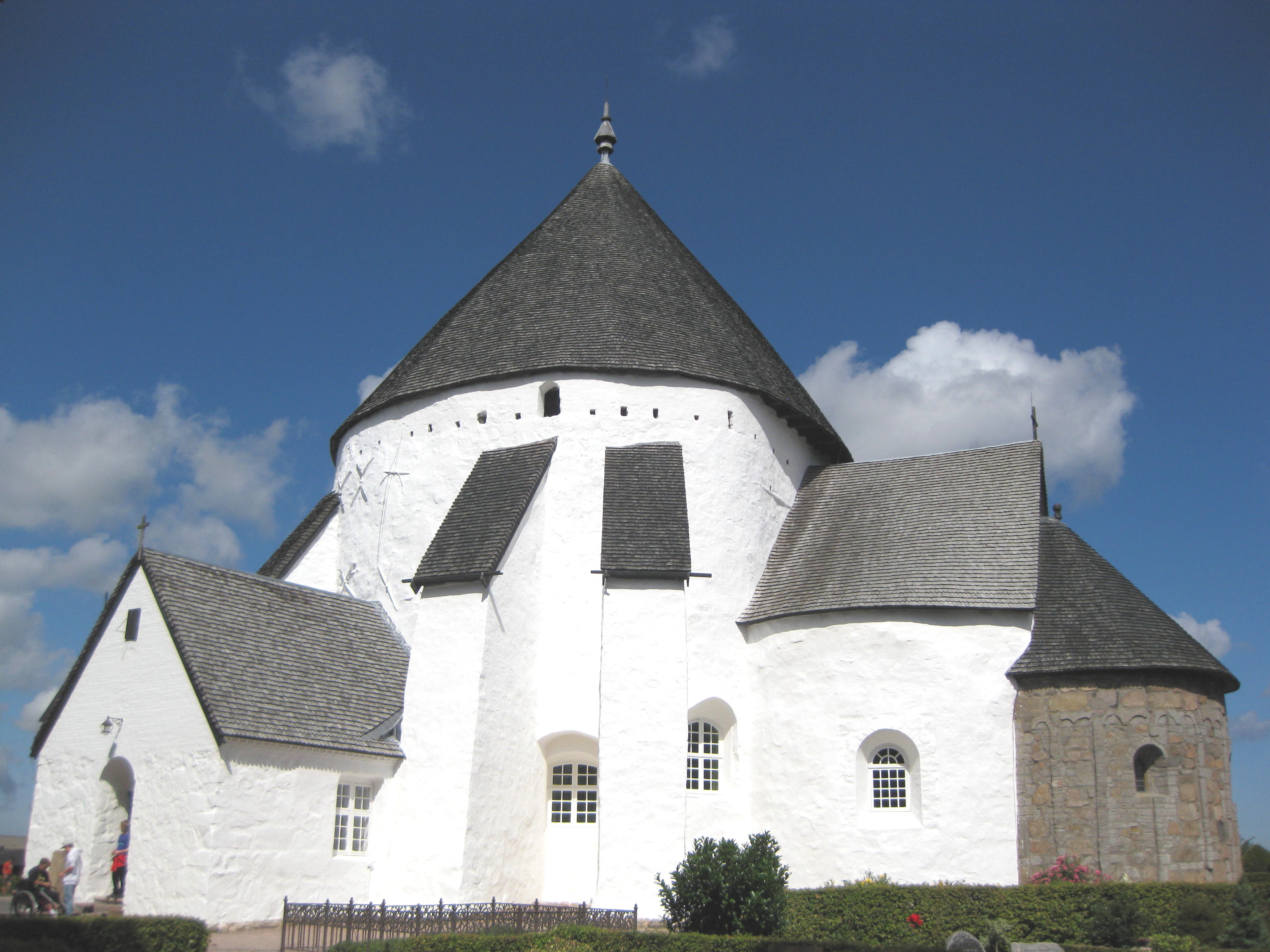 The church "Østerlars Kirke" located on the island Bornholm in east Denmark.